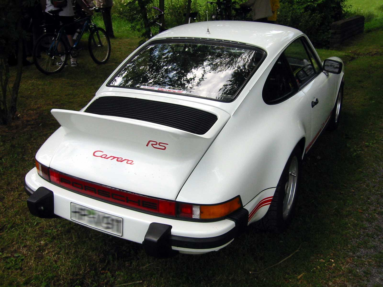 Porsche 911 in Carrera RS look